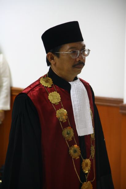 Hakim Haswandi saat pelantikan sebagai Ketua Pengadilan Negeri Jakarta Selatan